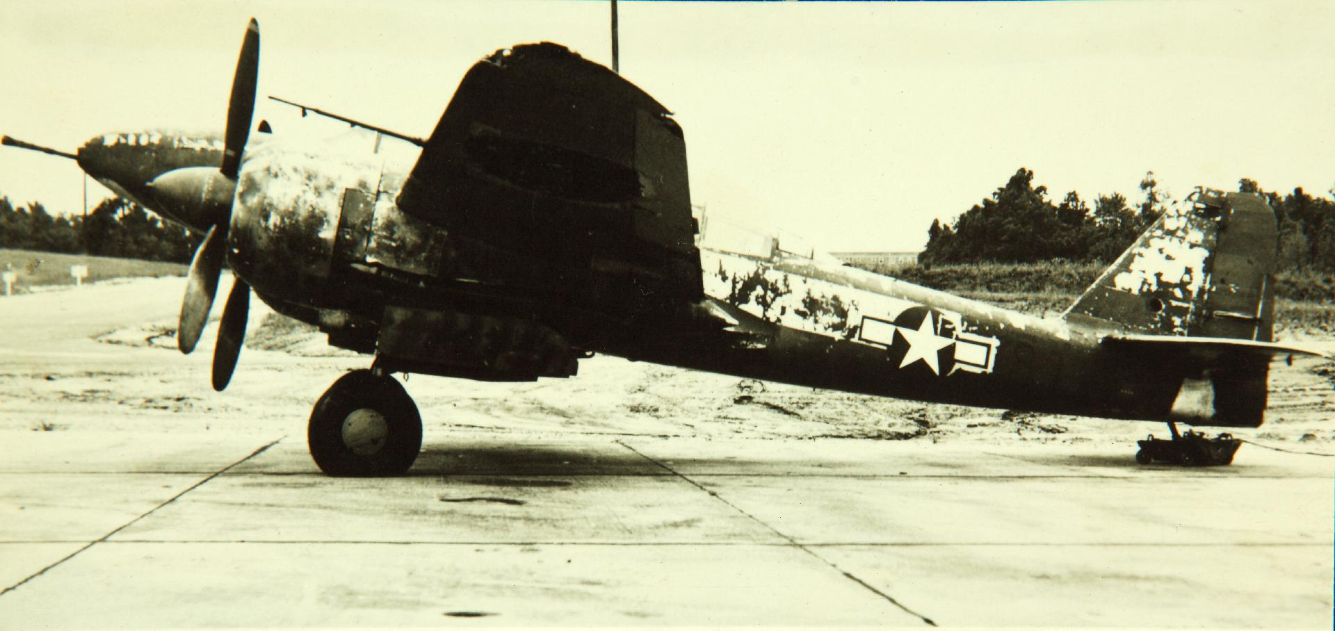 Kawasaki Ki-102 "Randy" heavy fighter captured as a war prize by the United States Army Air Forces following the end of World War II.